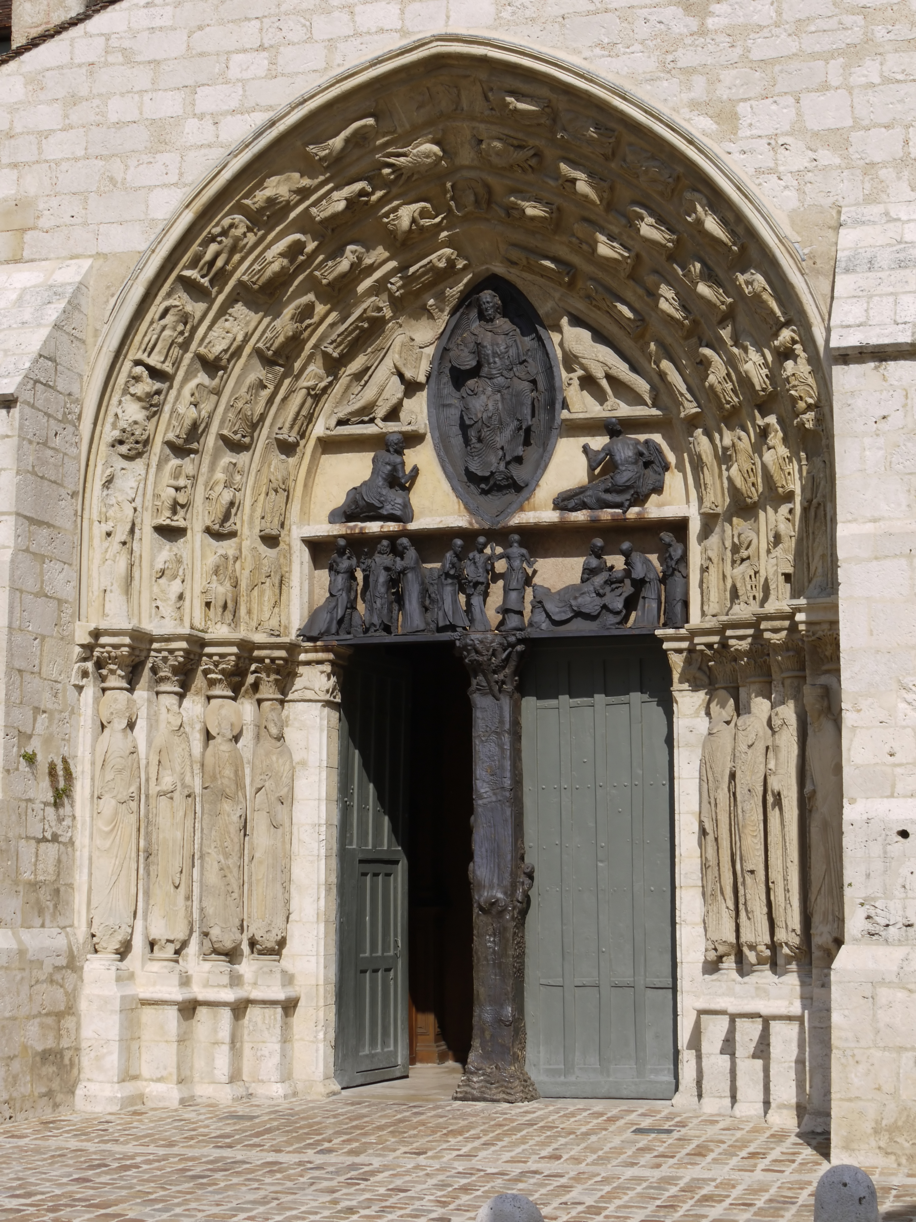 Porch of Church of Saint-Ayoul in Provins, France